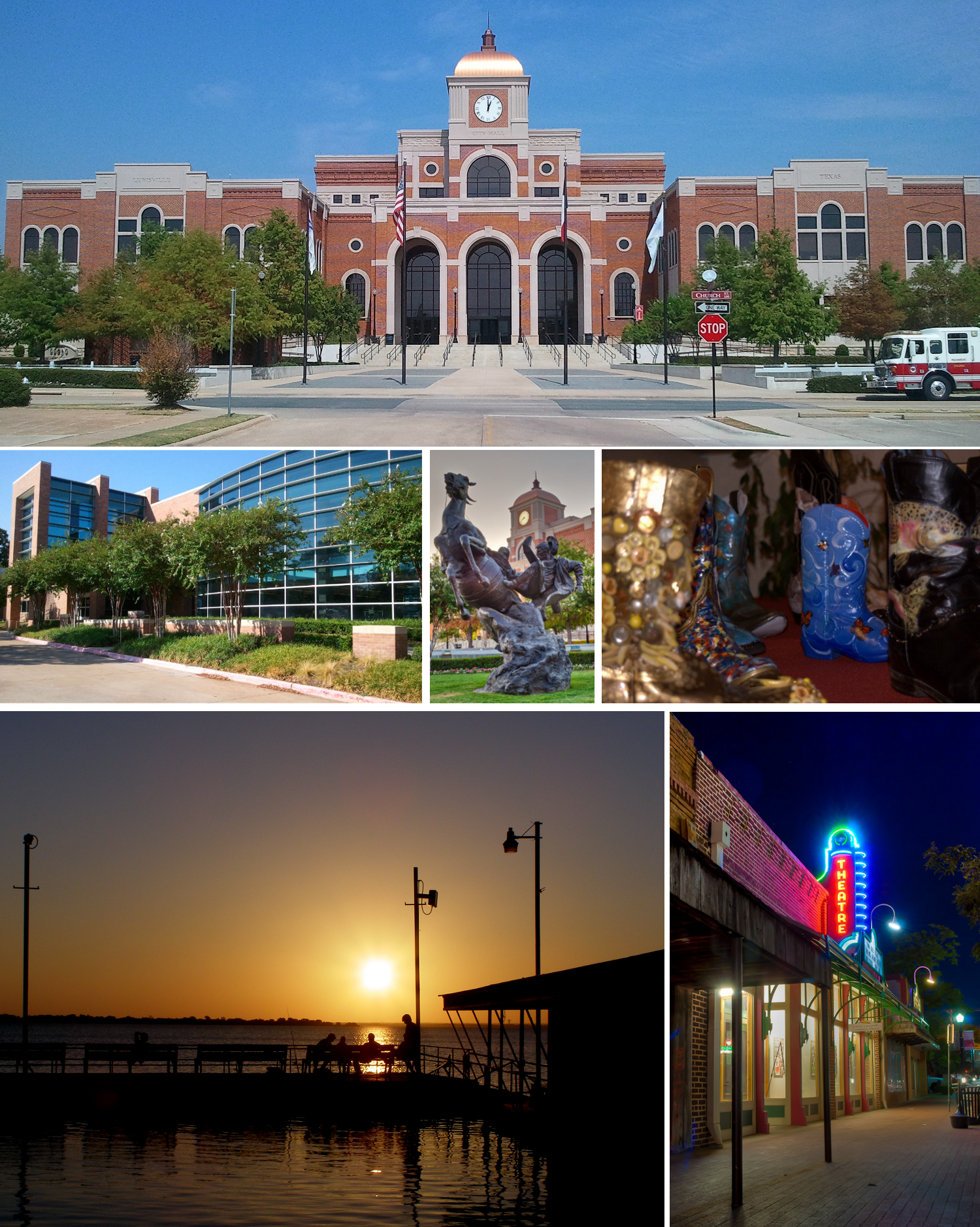 Montage of Lewisville images. From top to bottom left to right: City Hall Public library Slicker Shy Statue Arts festival (decorated boots) Lewisville Lake Park Greater Lewisville Community Theater